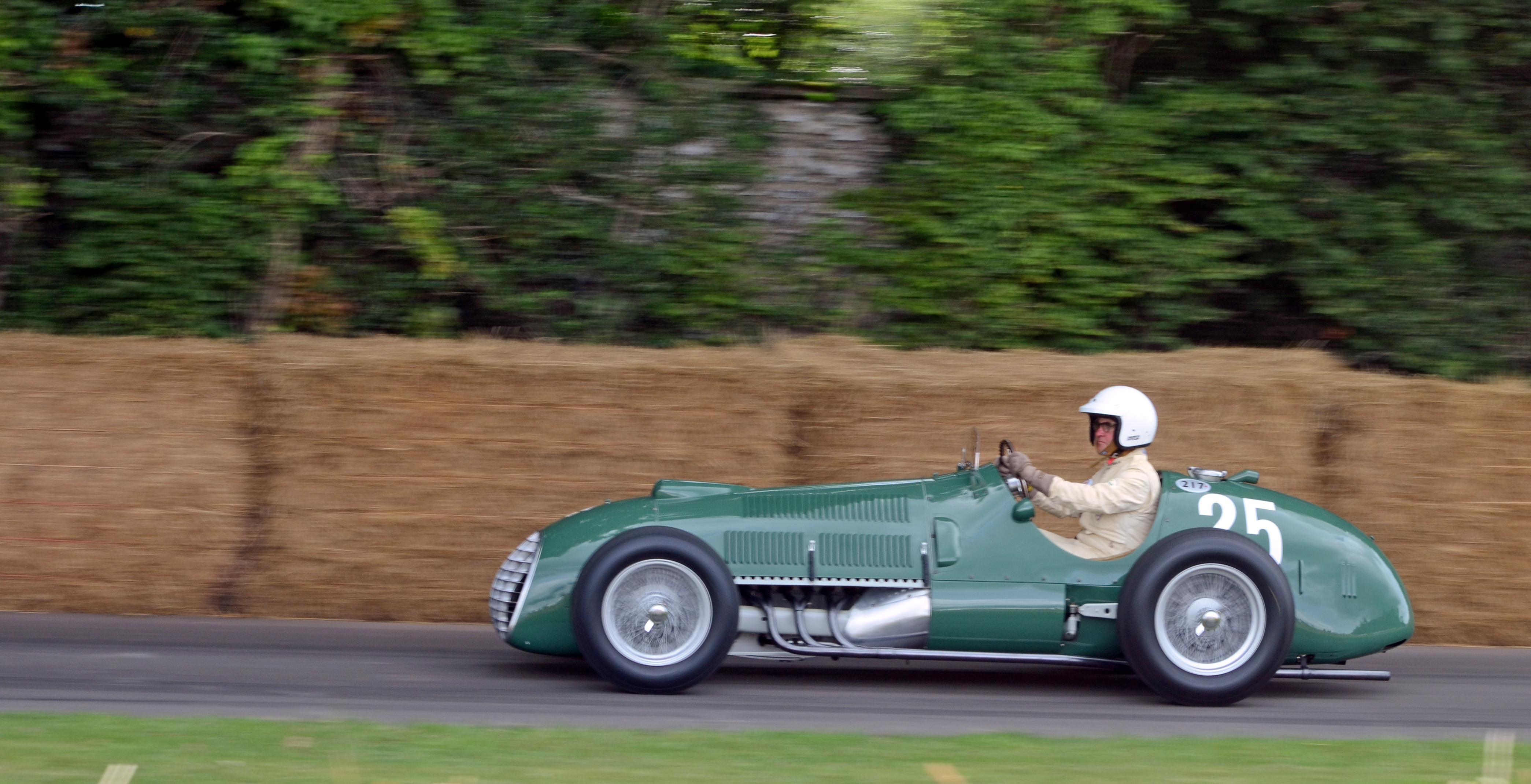 car goodwood festivalofspeed 2017 motorsport racing